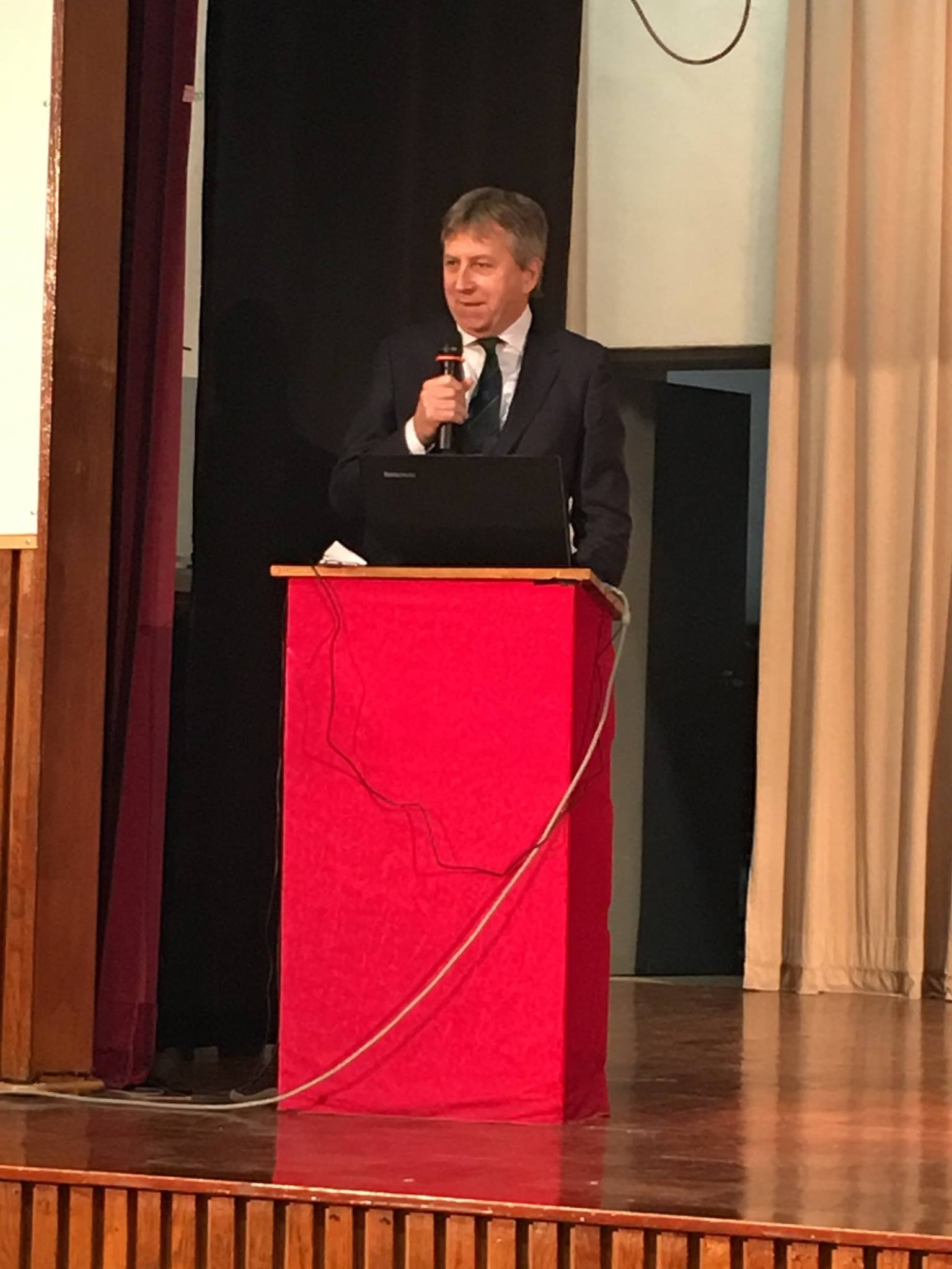 TALK BY HKU HEAD